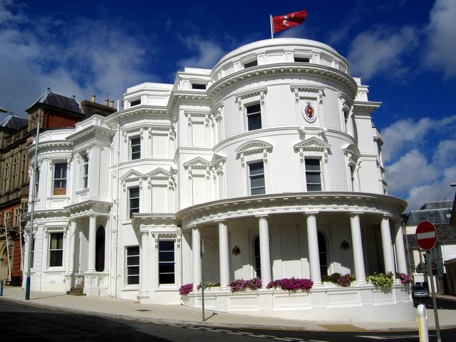 Government buildings, Douglas, Isle of Man. Looking splendid after a 3 year, 11 million pounds refurbishment. Nicknamed the 'Wedding Cake'.